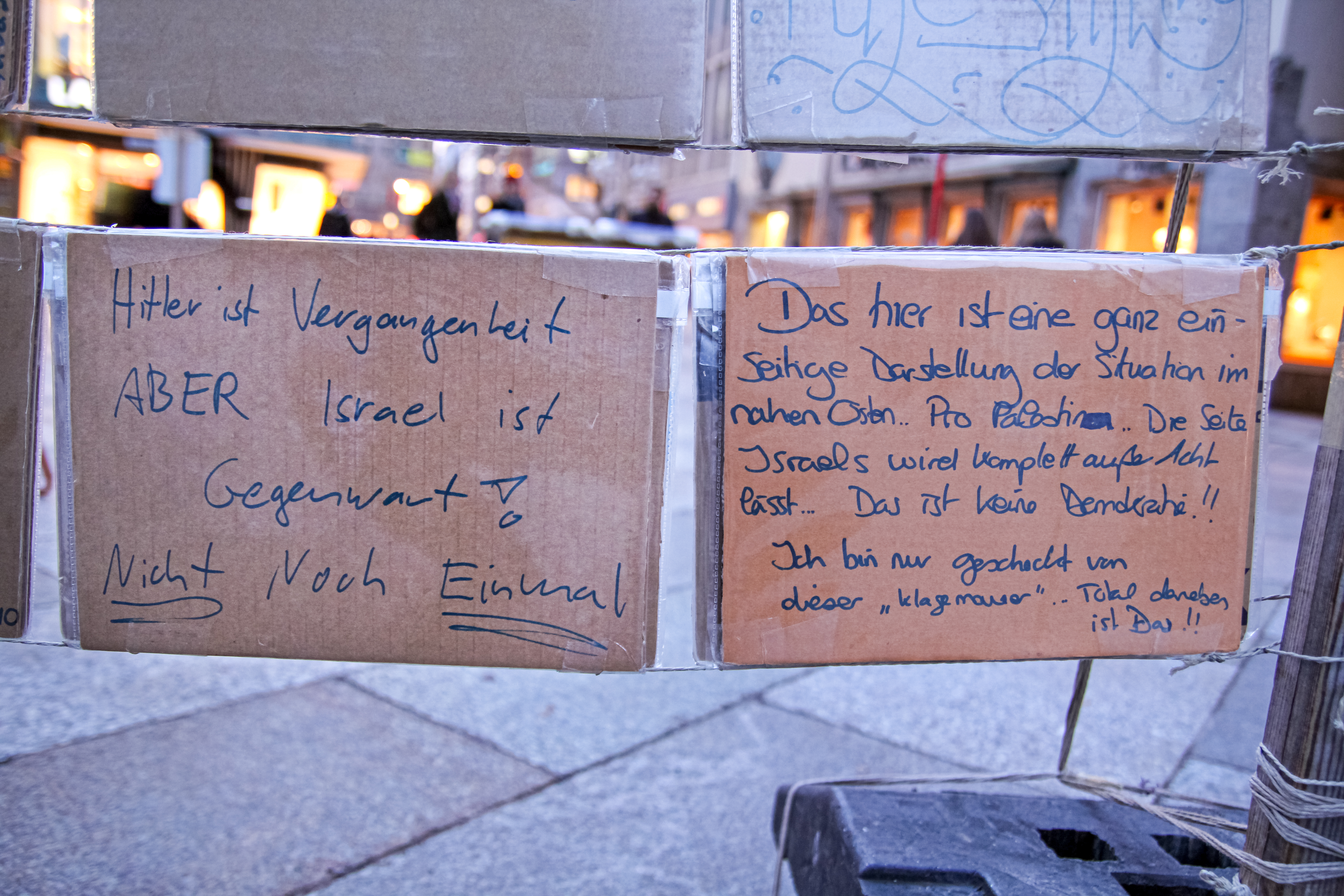 2 Cardboards as quotations on the "Cologne Wailing Wall for Peace". Left side: "Hitler is a thing of the past BUT Israel is present. Not once again". Right side: "This here is a totally one-sided representation of the middle east situation. Pro Palestine. Israel's side is completely disregarded. That is not democracy!! I'm just shocked about this 'wailing wall'. It's completely wrong."